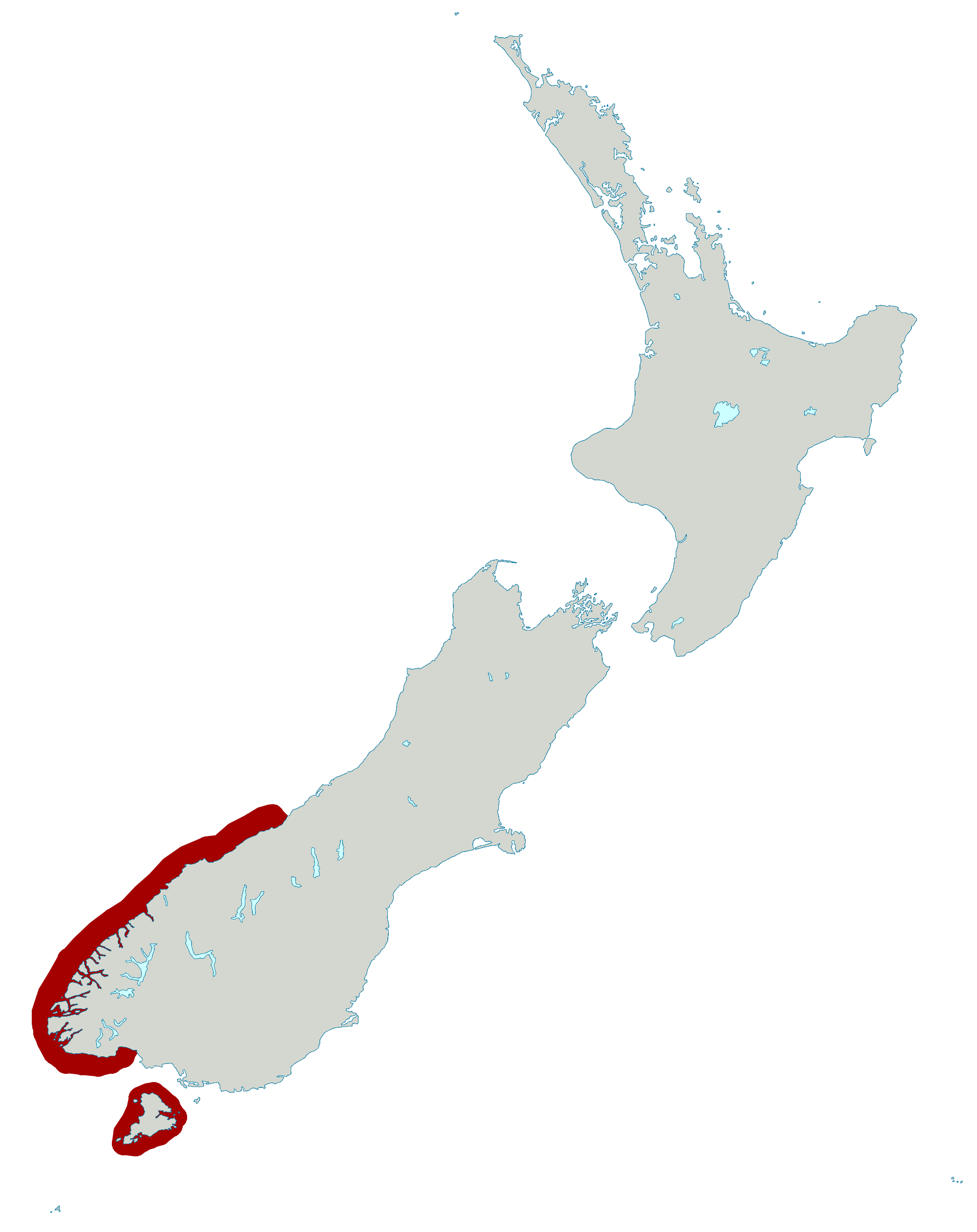 Red: The distribution of the Fiordland Penguin, Eudyptes pachyrhynchus, endemic to New Zealand. South-west coast of the South Island (southern Westland and Fiordland); Stewart Island.